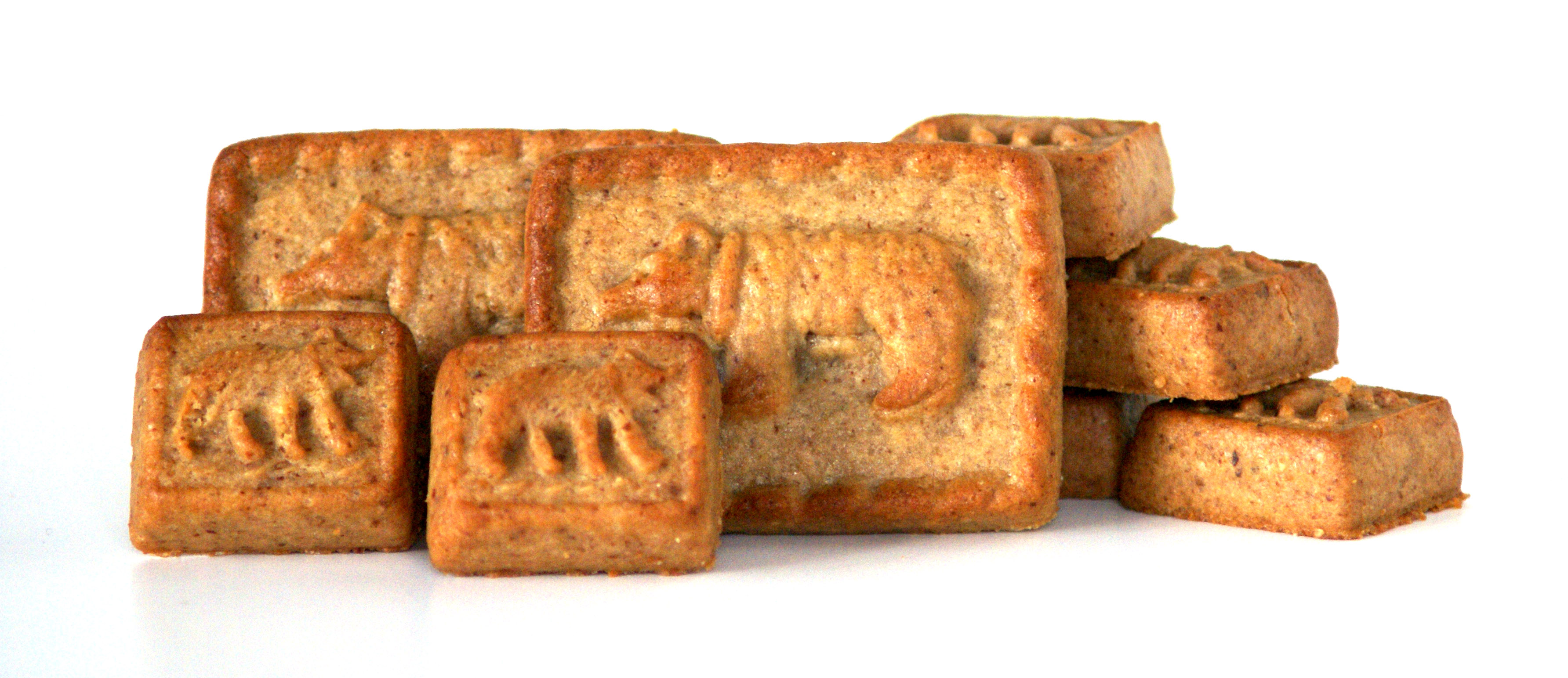 Berner Haselnussleckerli (Haselnusslebkuchen), a traditional sweet from the canton of Berne, Switzerland.